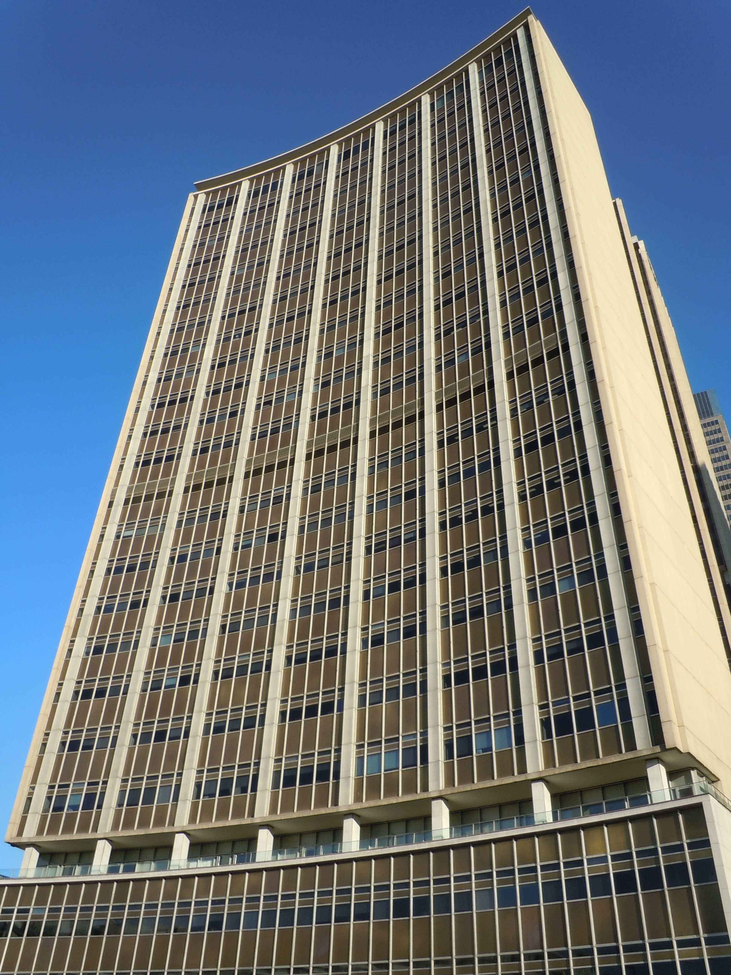 Front of the AMP building